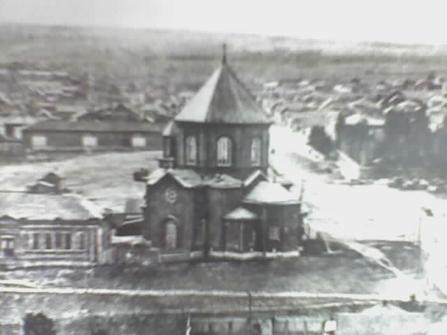 Armenian Church in Tsaritsyn